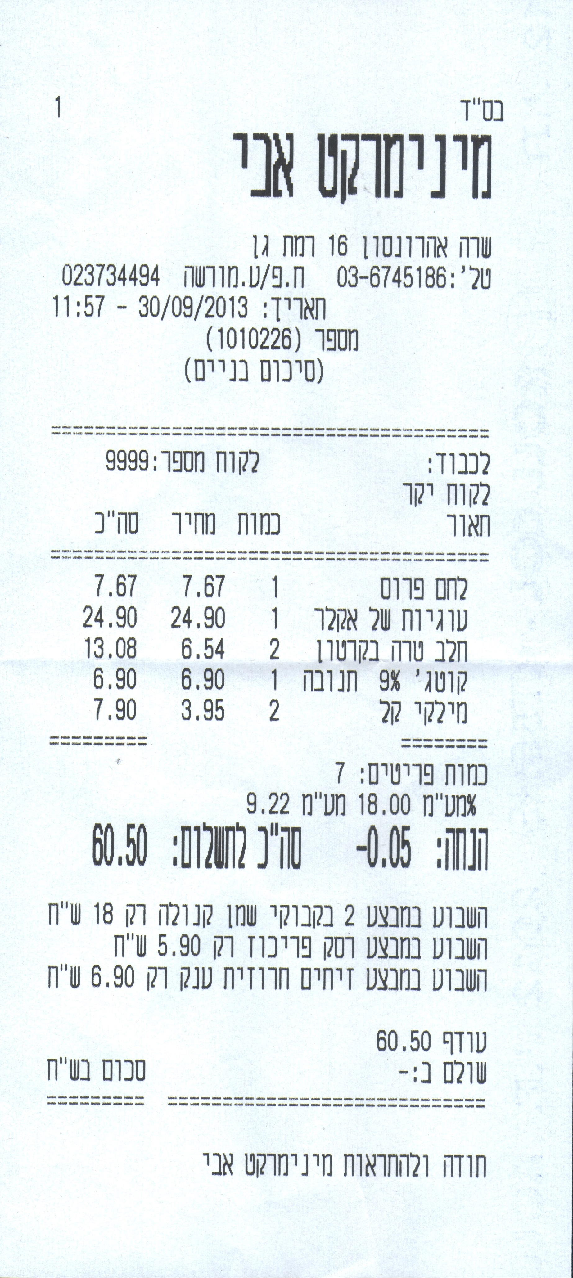 Invoice of Minimarket Avi in Israel